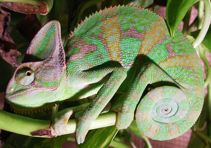 Chris Kadet, Veiled Chameleon